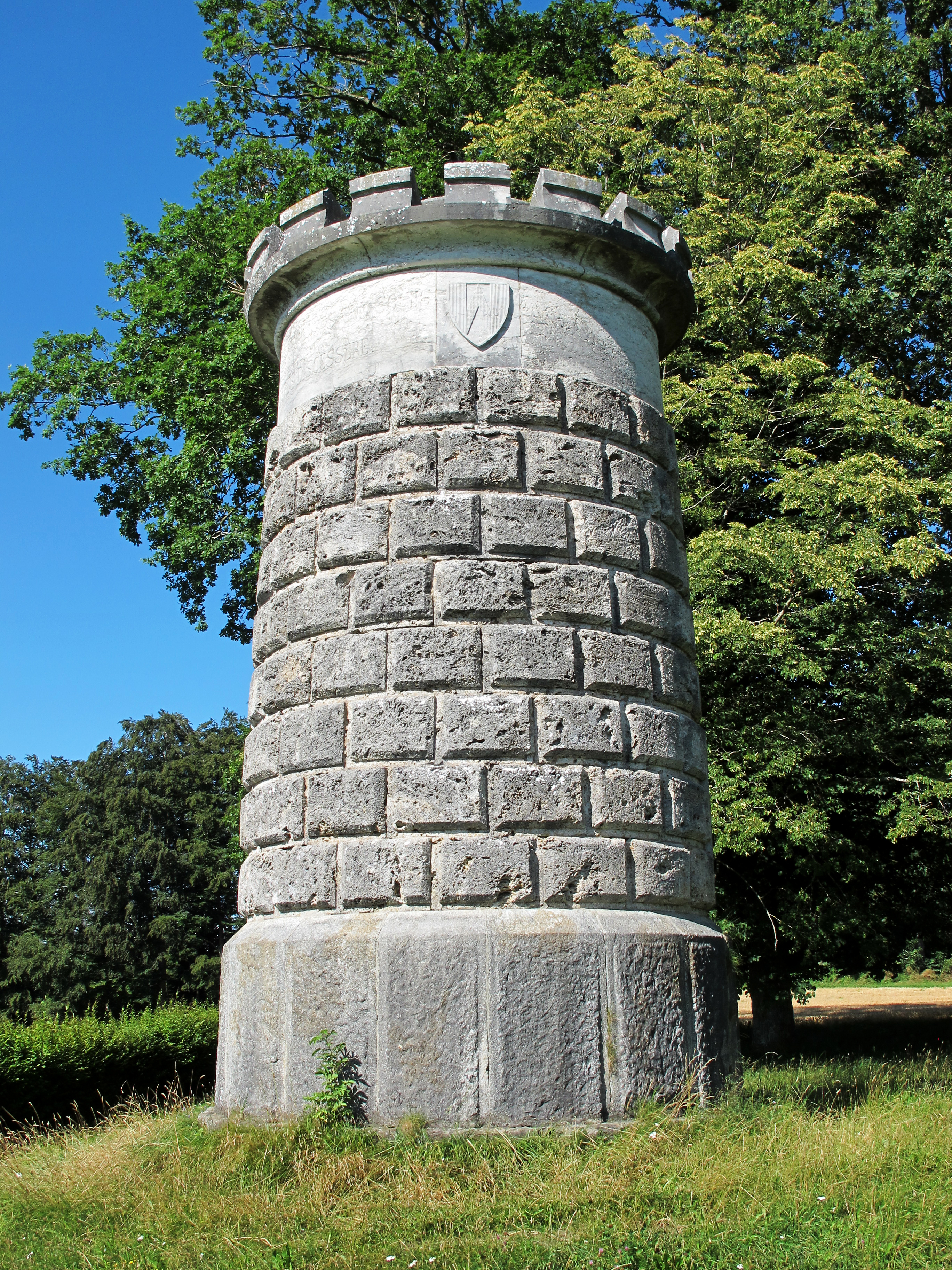 Monument of the battle of Laupen on Bramberg, municipality of Neuenegg, Switzerland